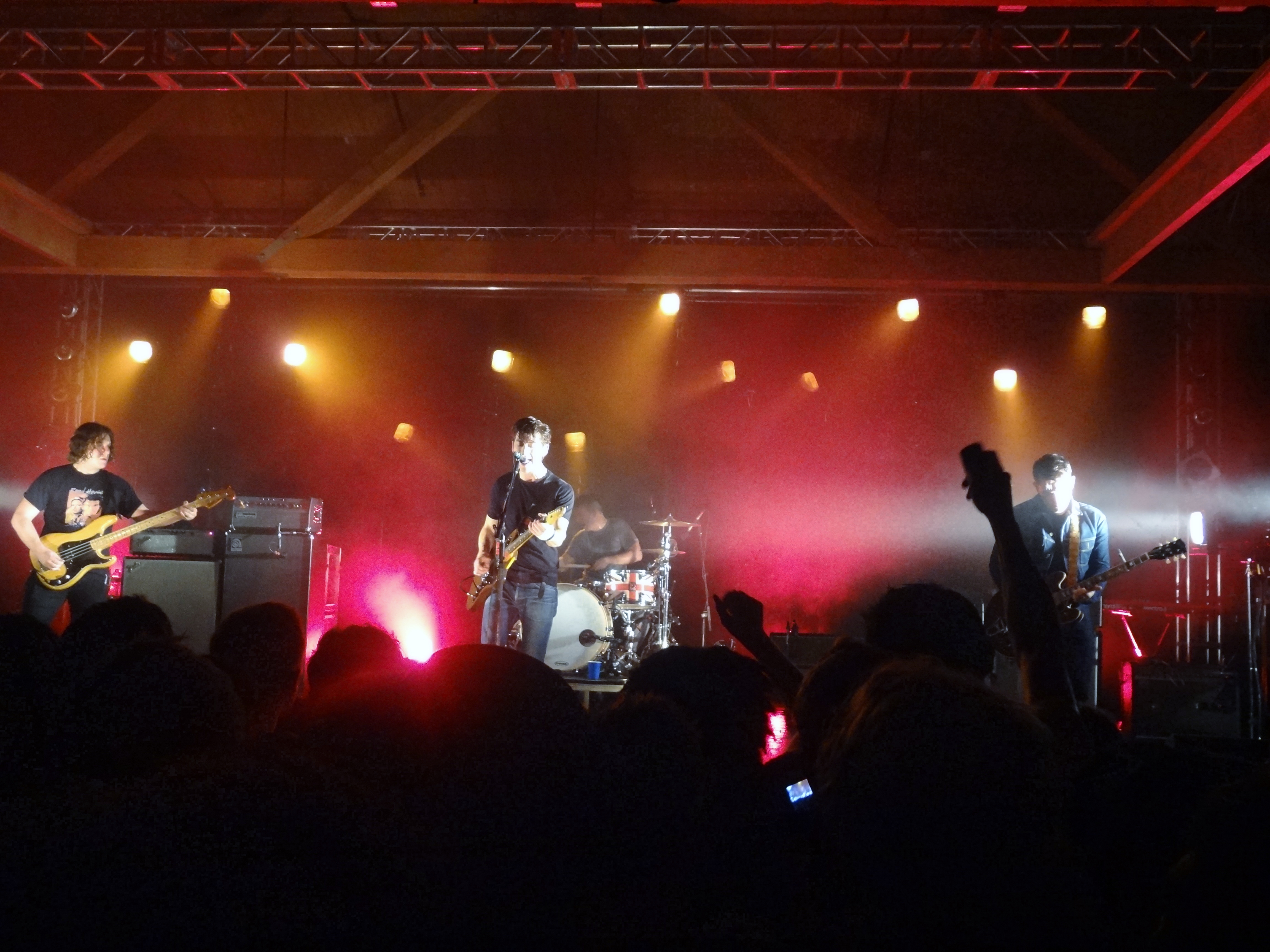 Arctic Monkeys on Showbox SoDo